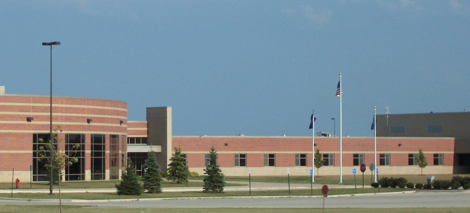 Looking east at Two Rivers High School in Two Rivers, Wisconsin, USA from Wisconsin Highway 42.